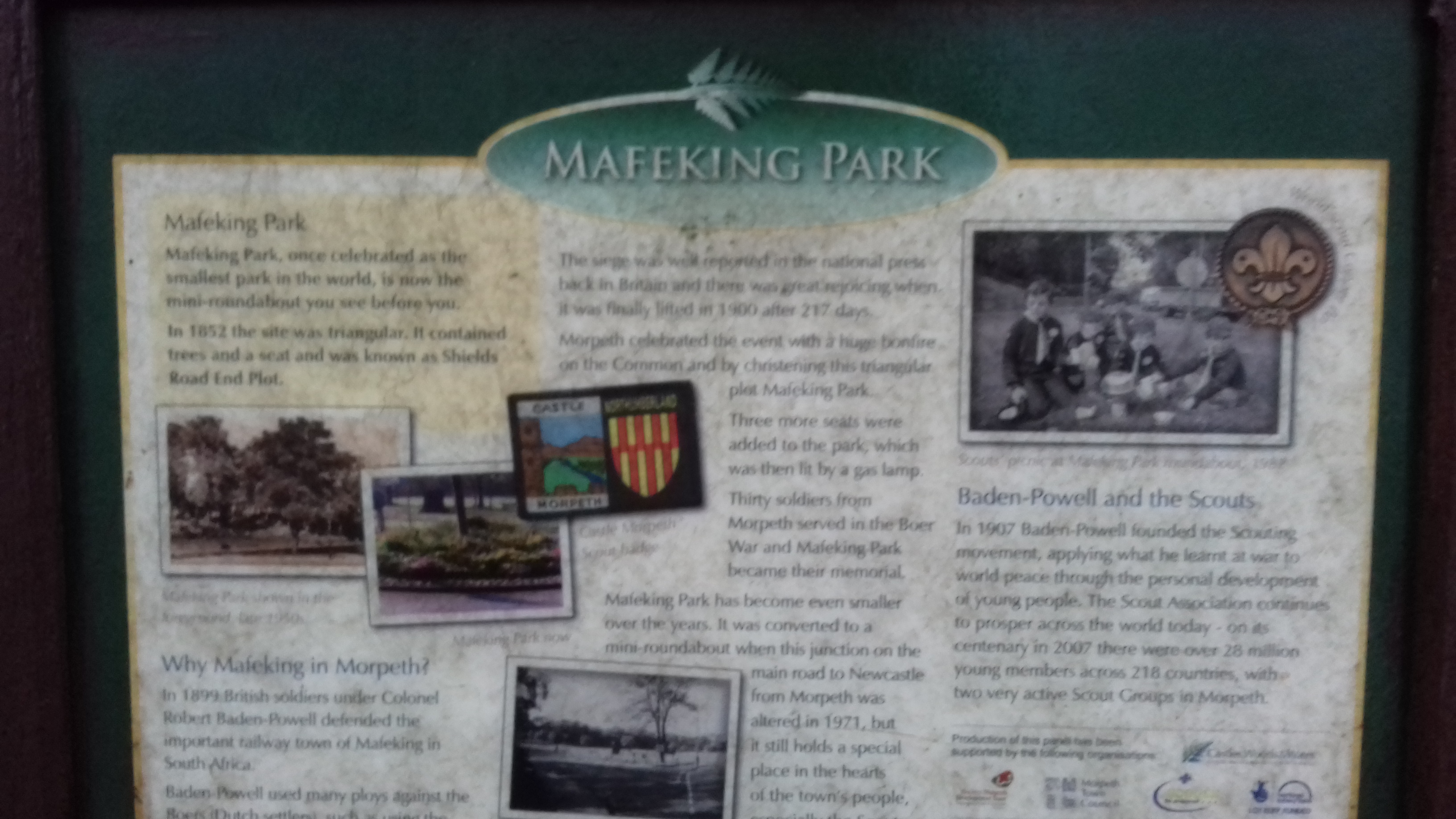 An information board outside Mafeking Park, Morpeth